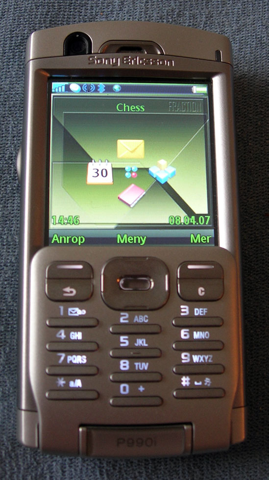 Sony Ericsson P990i